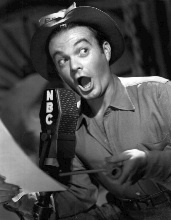 Photo of Leo Gorcey as a regular cast member of the Bob Burns radio program. Gorcey is best known for his film work.